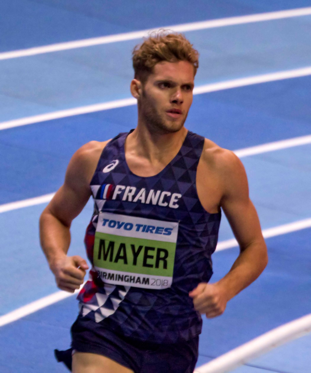 Kevin Meyer during 2018 IAAF World Indoor Championships in Birmingham